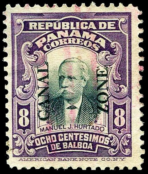 Canal Zone Postage-8c, 1909 Issue